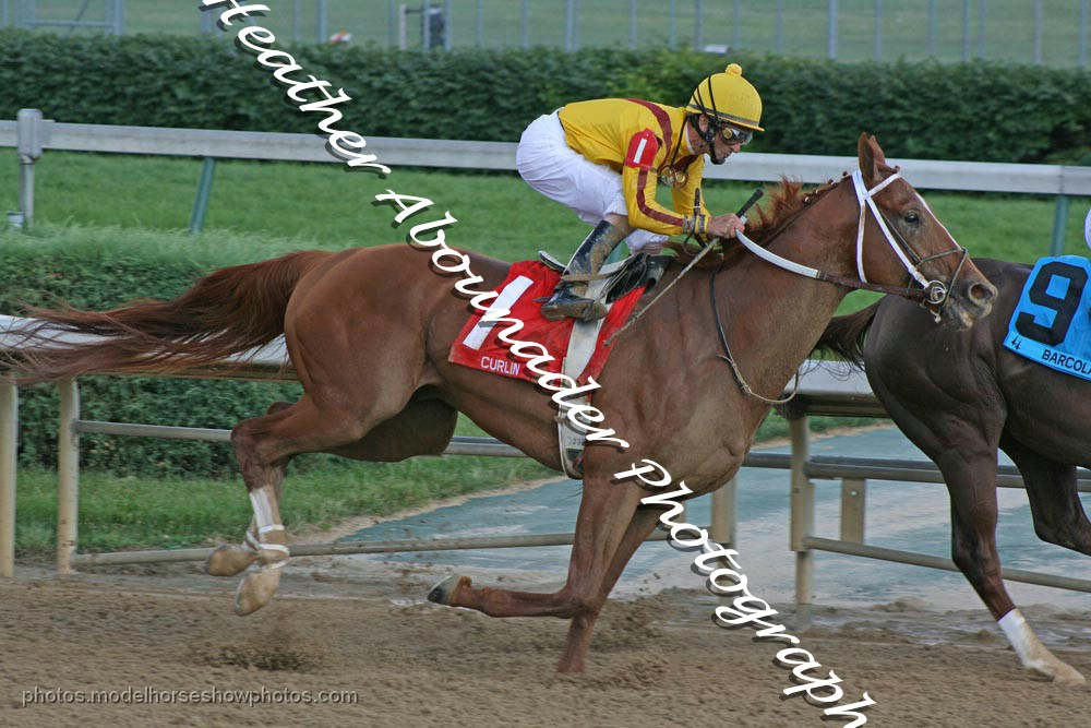 Images by Heather Abounader PHotography